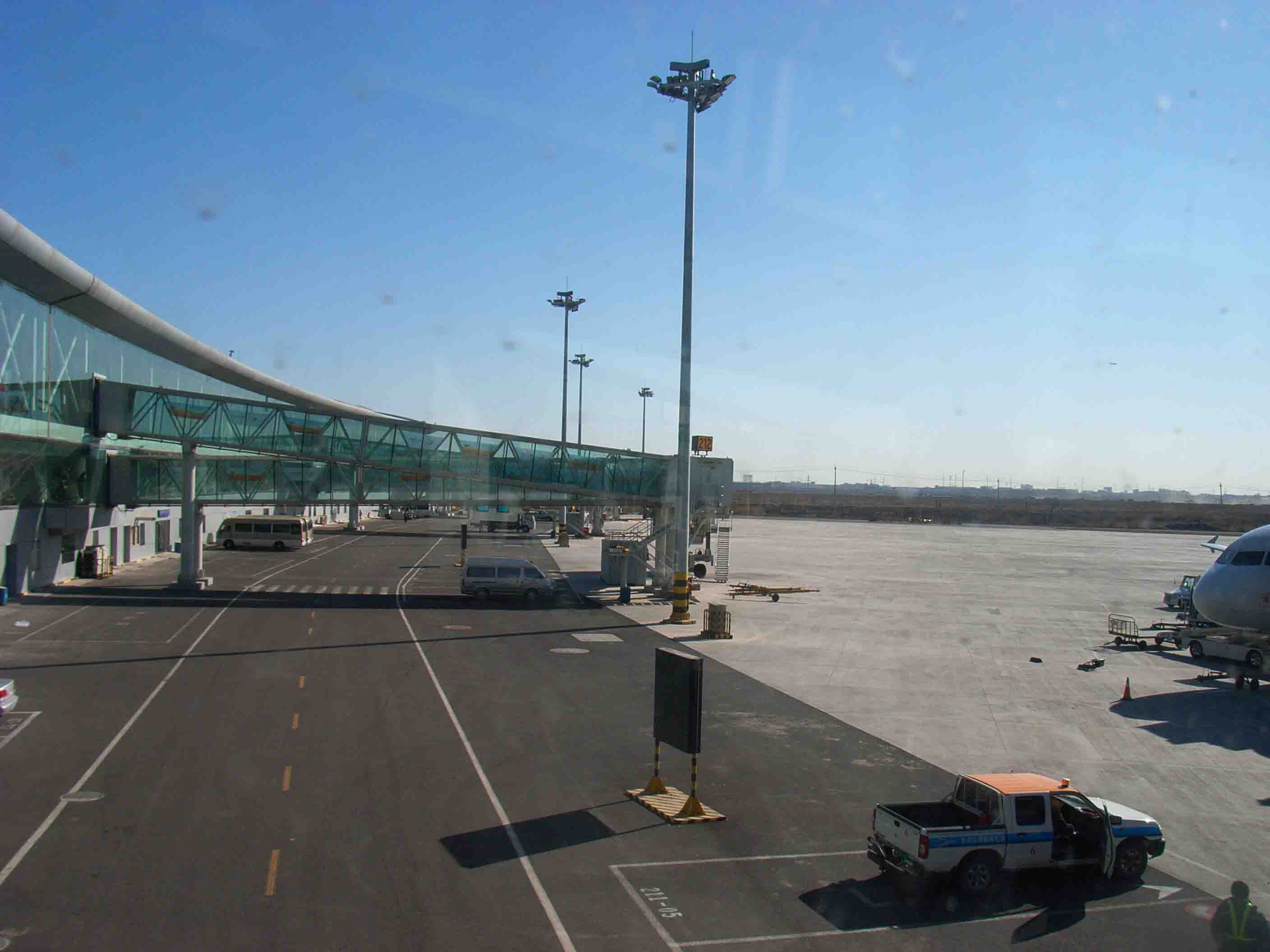 Tianjin Airport terminal